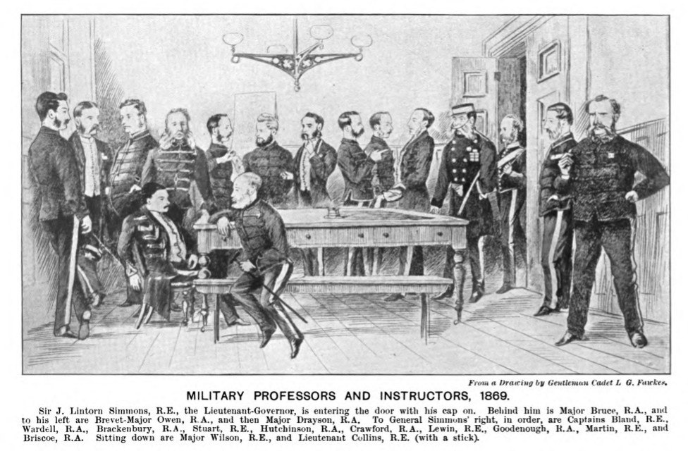 Group of military instructors at the Royal Military Academy, Woolwich, 1869 drawing. By the door in cap is Lintorn Simmons. Alfred Wilks Drayson is on the extreme right.